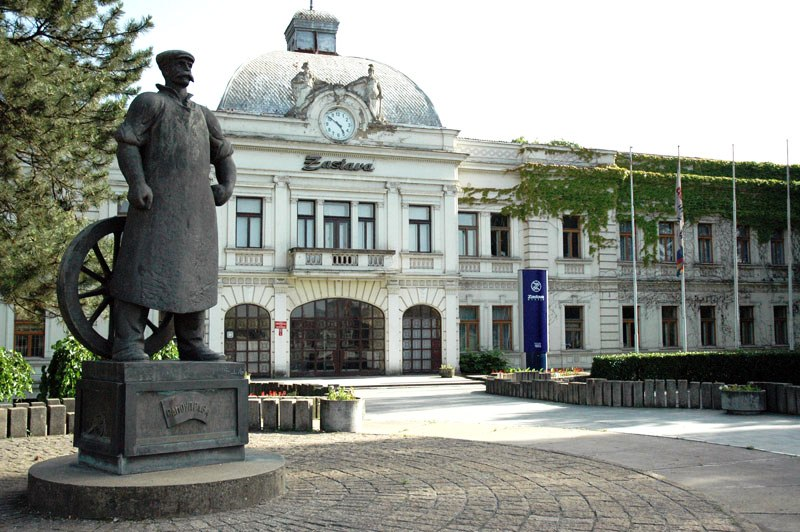 The square Topolivnica in Kragujevac